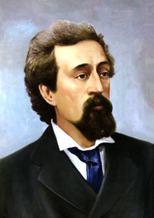 Dmitrij Nikolaevich Sadovnikov (1847-1883) - Russian poet, writer, teacher, art critic, ethnologist and folklorist. Best known as the author of the song "Volga, Volga, mat' rodnaya...".